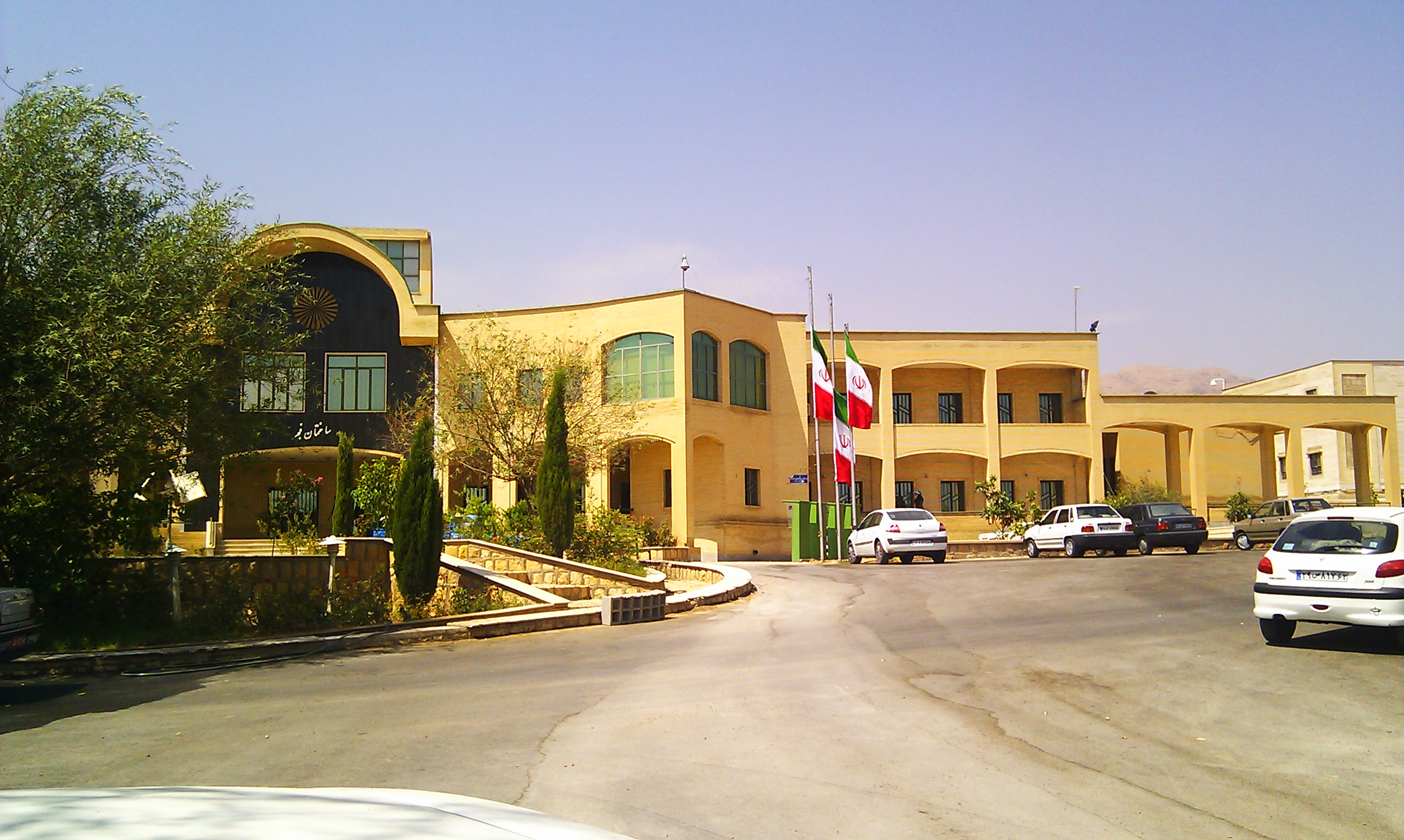 shiraz payam-e-noor university